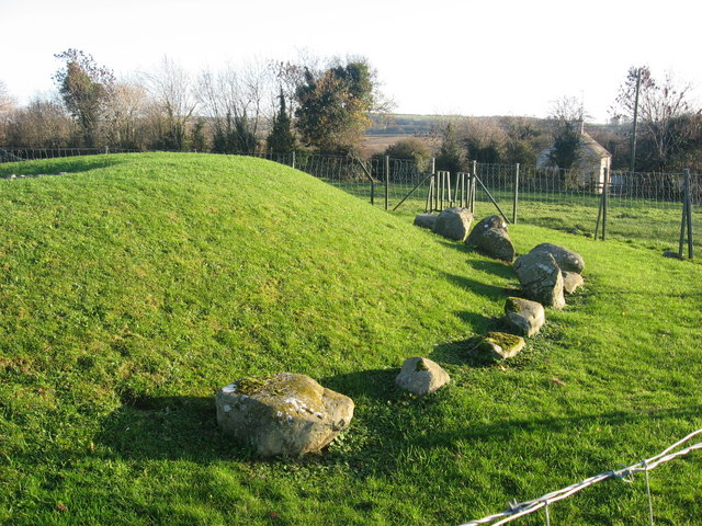 Passage tomb, Townleyhall, Co. Louth. The kerbstones of the small Neolithic passage tomb at Townleyhall.